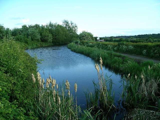 The Nottingham Canal. An information board near the car park at SK476433 records the following information about the canal: The Nottingham Canal was opened in 1796 and cost £80,000. It is 14¾ miles long, running from the River Trent at Nottingham to its junction with the Erewash and Cromford Canals at Langley Mill. The Engineer was William Jessop, who was one of the greatest of the canal builders, much in demand for his skills during the last decade of the 18th century, when canal construction was at its peak. The canal was abandoned in 1937, having carried no traffic for the previous decade, but continued to receive nominal maintenance until 1971. In 1976 the Nottingham Canal Society was formed with the aim of restoring the canal for navigation between Langley Mill and Trowell. Broxtowe Borough Council originally supported this objective, but since then open cast mining has made this unrealistic, and the lengths in Council ownership are managed for nature and as a public amenity.